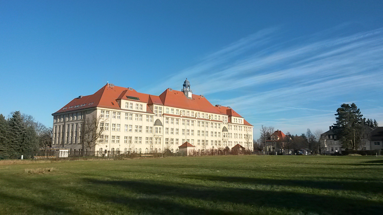 Gymnasium Burgstädt